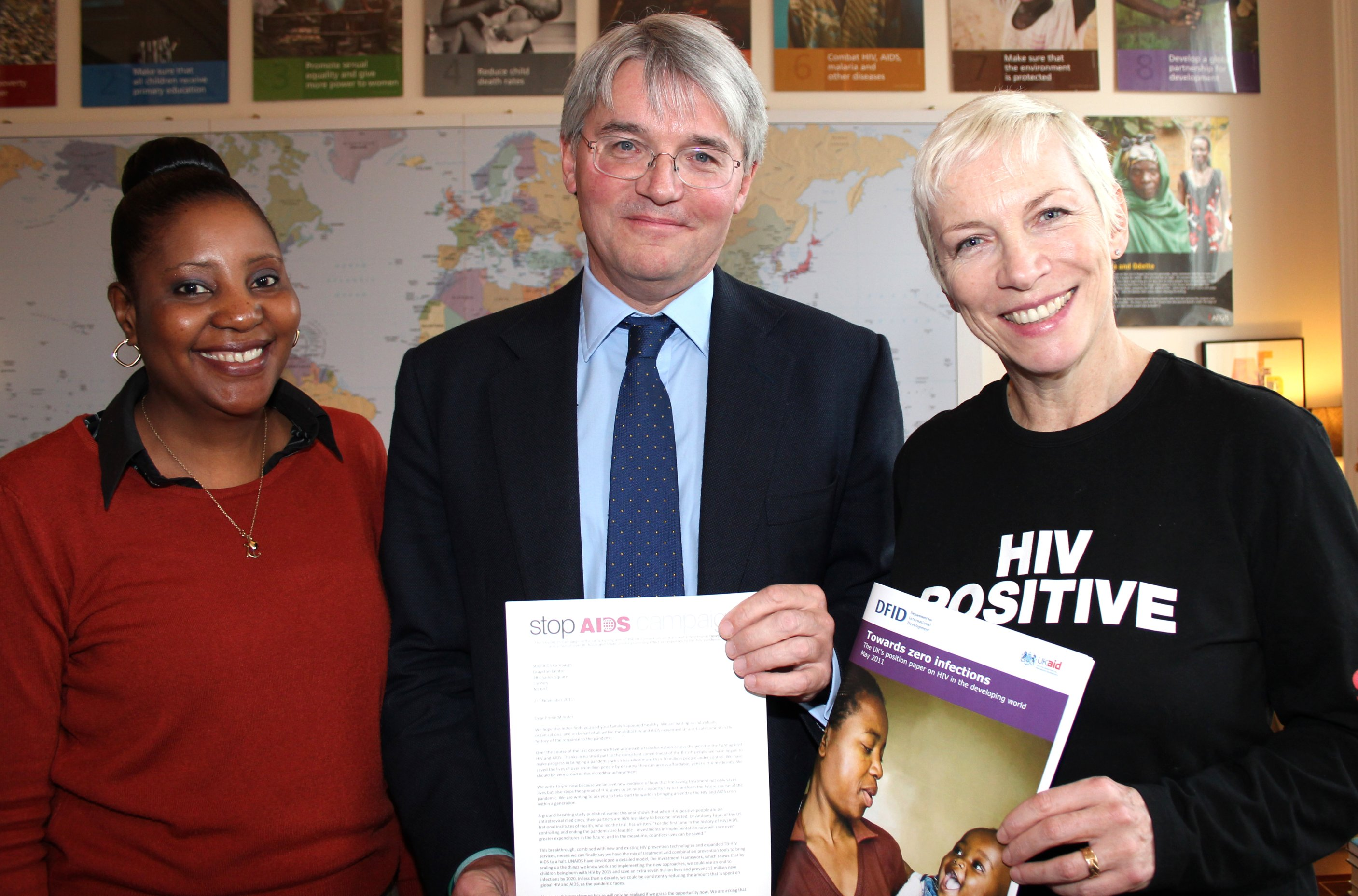 HIV campaigners, Memory Sachikonye (l) and Annie Lennox (r) met with Secretary of State for International Development Andrew Mitchell ahead of World AIDS Day, on behalf of the Stop AIDS Campaign and Act V, calling on the UK to lead the effort to bring an end to AIDS. They presented a letter endorsed by over 30 organisations, as well as individuals such as Desmond Tutu and Elton John. To find out more about how the UK is leading efforts to prevent HIV and save lives in the world's poorest countries, please visit: Picture: Lindsay Mgbor/DFID Terms of use This image is posted under a Creative Commons - Attribution Licence , in accordance with the Open Government Licence . You are free to embed, download or otherwise re-use it, as long as you credit the source as 'Lindsay Mgbor/Department for International Development'.